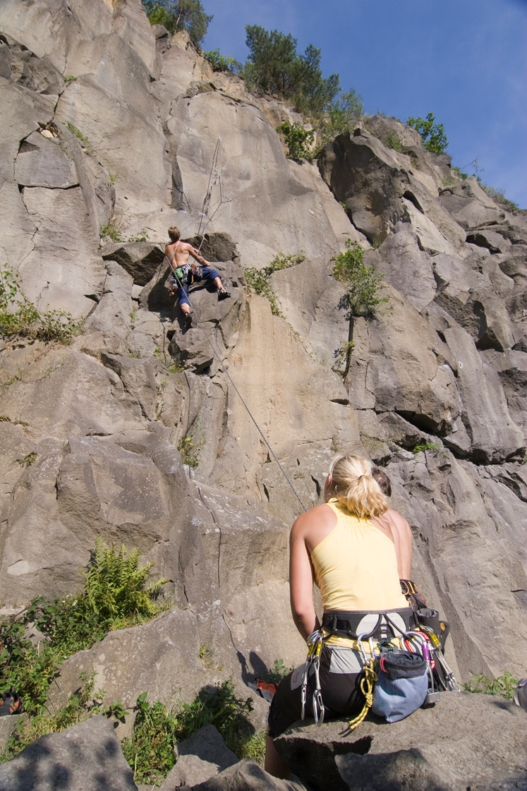 Climber, Ettringer Lay